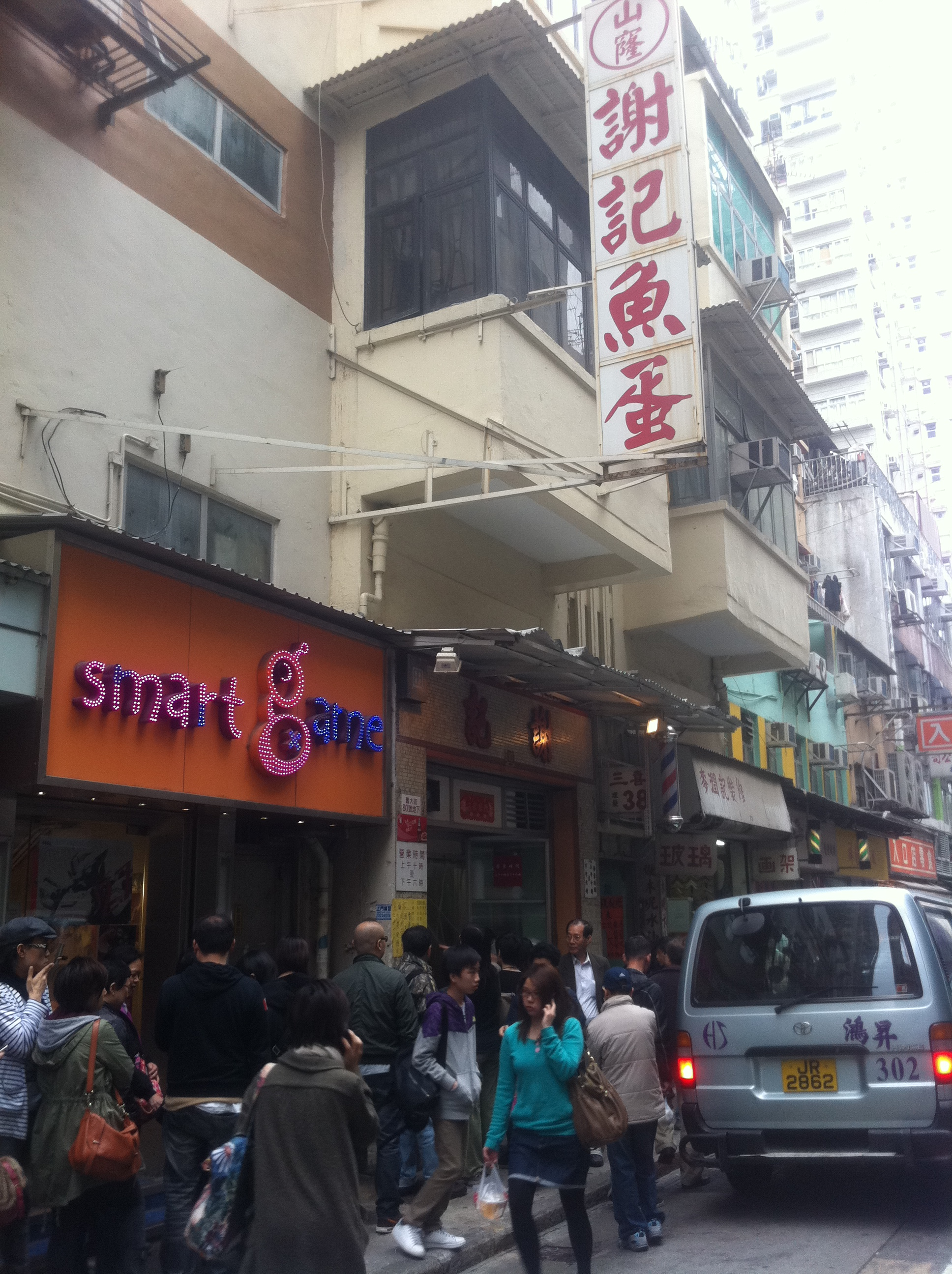 中文（香港）: 香港仔舊大街 80 Old Main Street 山窿謝記魚蛋